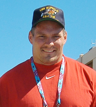 See description at original file